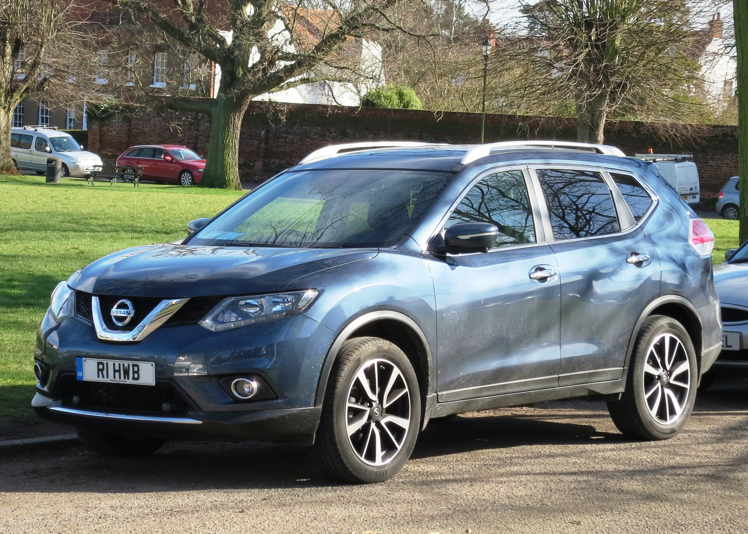 Nissan X-Trail (T32) (2014)